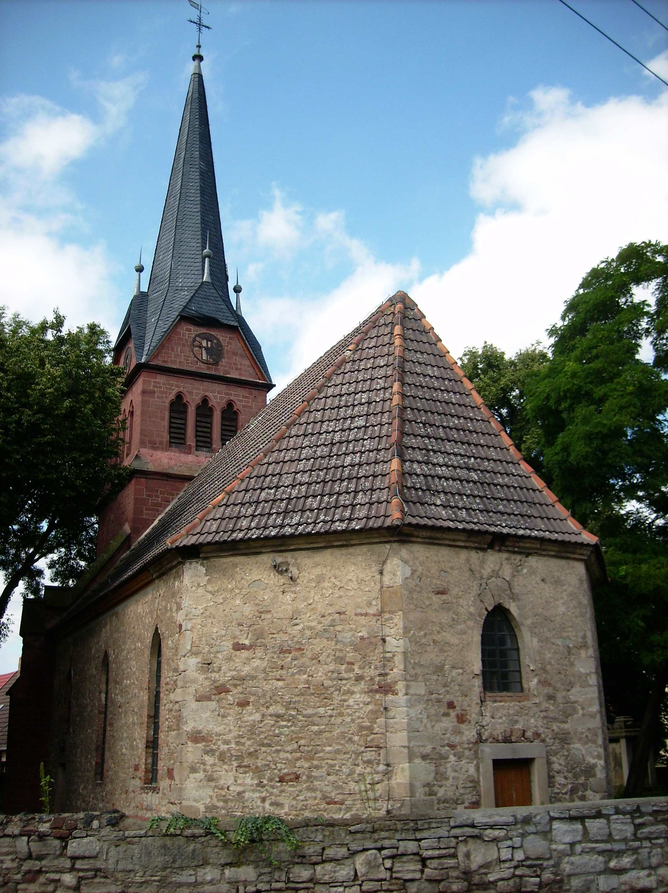 Church of the village of Gnölbzig (Alsleben/Saale, district of Salzlandkreis, Saxony-Anhalt)